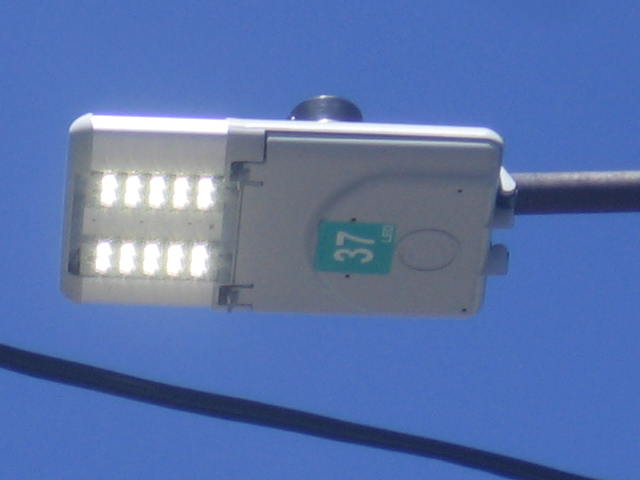 History of street lighting - BetaLED - Type 3 STR-LWY-1S-HT - 37 watt version, dayburner